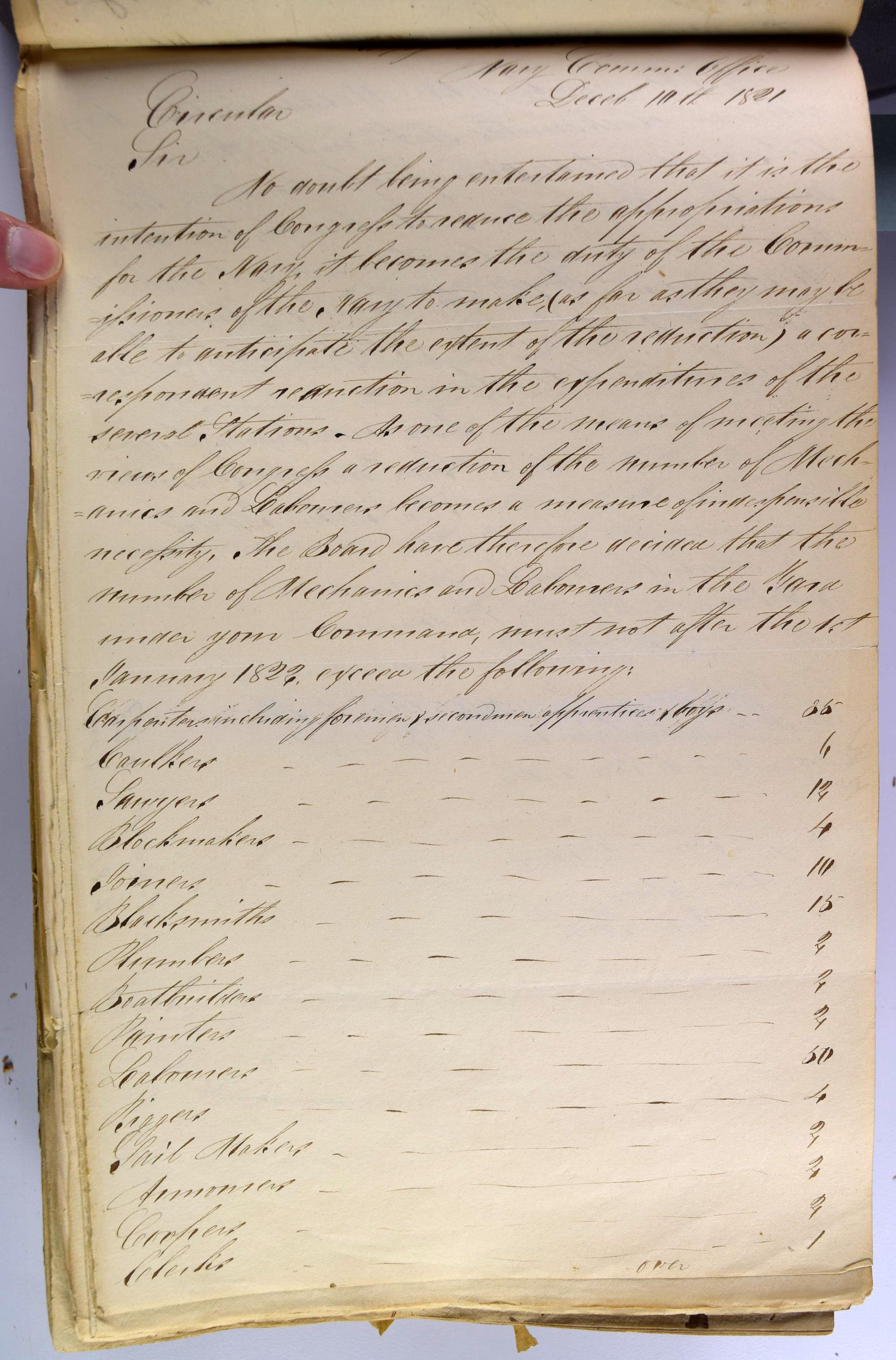 John Rodgers to Samuel Evans, Dec. 10, 1822, re wage limits Brooklyn Navy Yard. Source: Commodore John Rodgers to Captain Samuel Evans, subject pay and hours of work. NARA RG 125, Records of the Judge Advocate General Case Number 403 Capt. Samuel Evans Entry 26 – B.